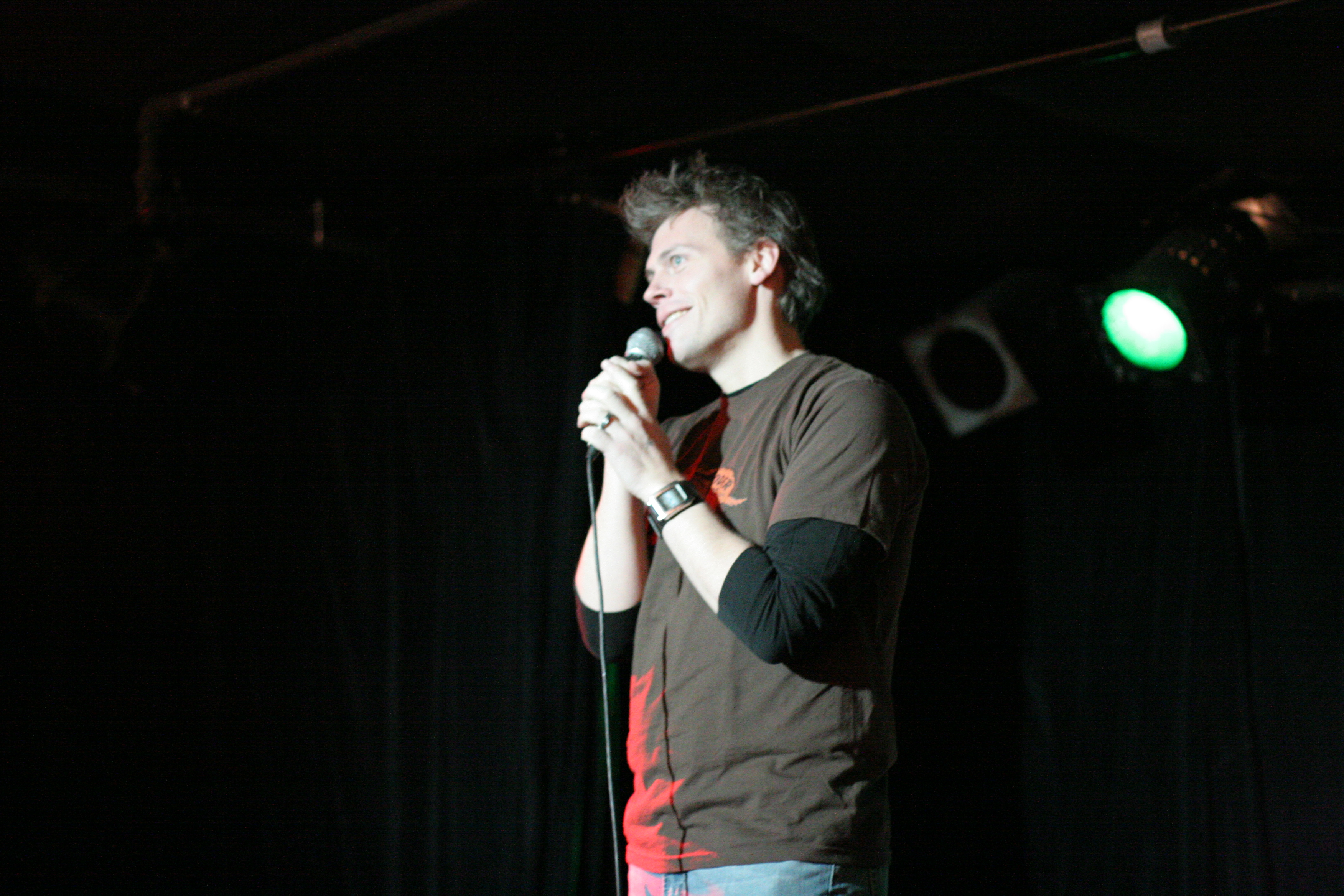 Christian Finnegan